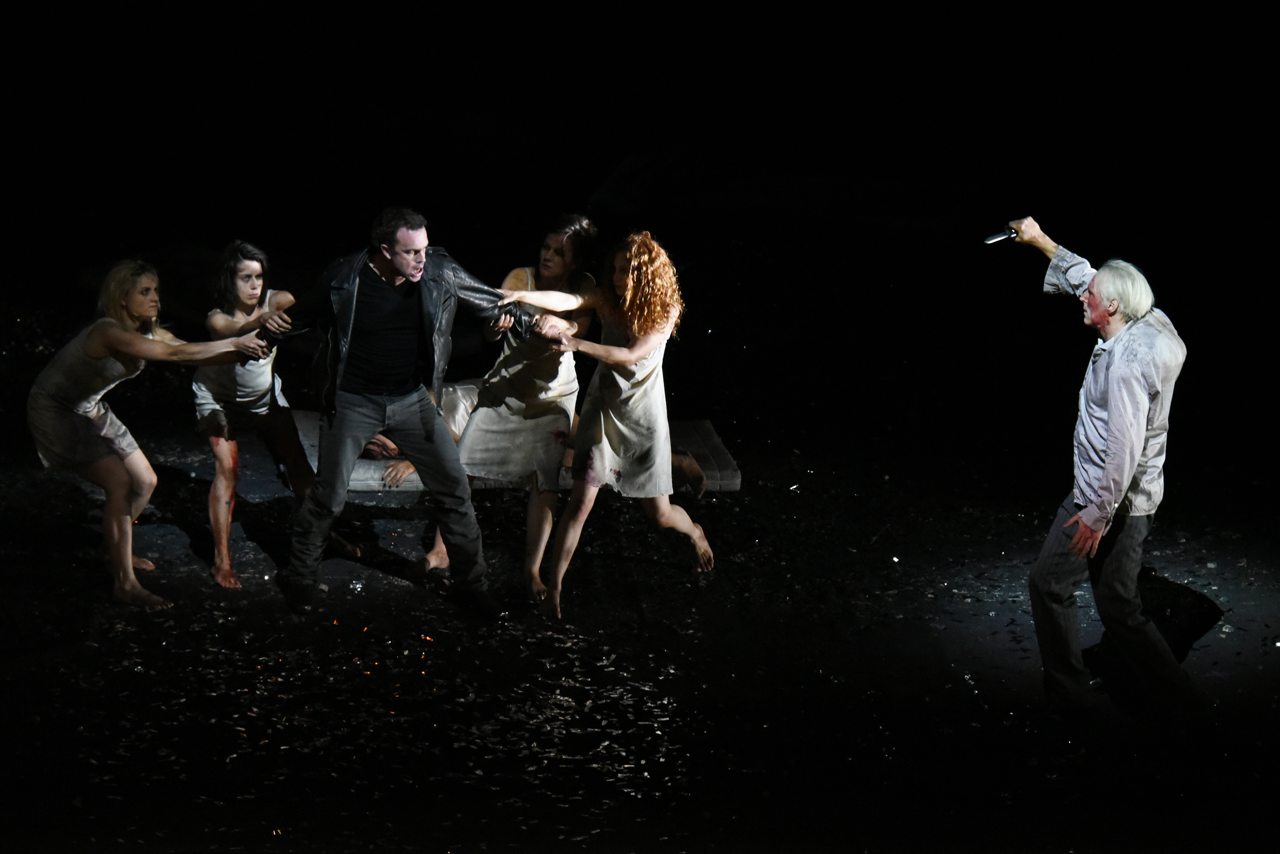 Die Gezeichneten, opera by Franz Schreker (Opéra de Lyon 2015)